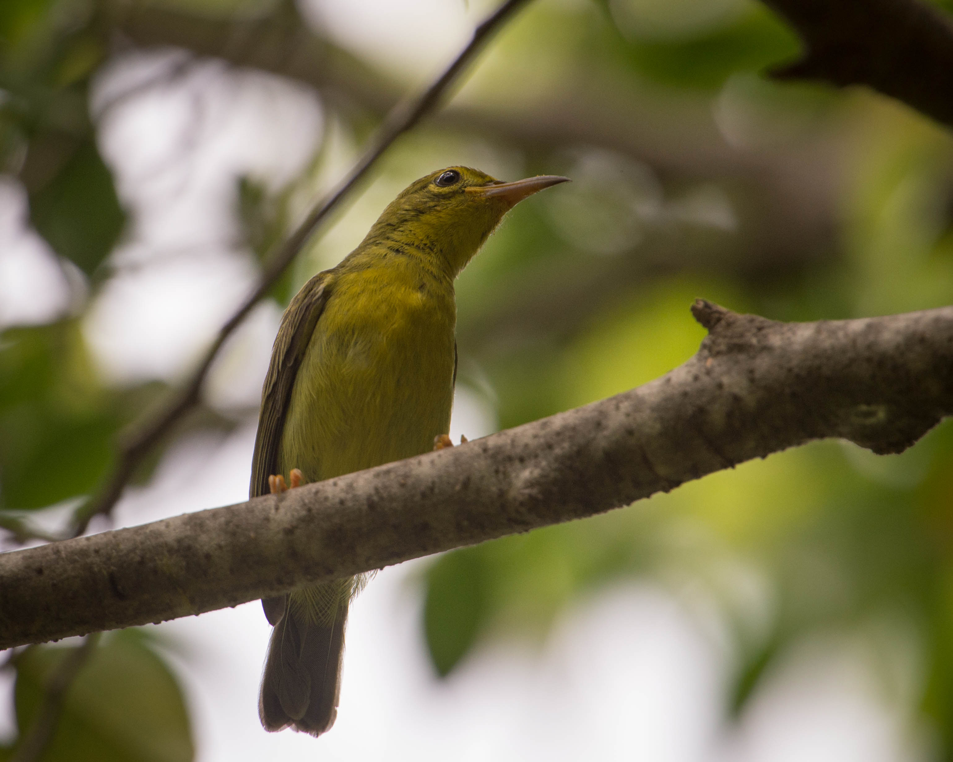 Female of Brown-throated Sunbird (Anthreptes malacensis) at Bangkok